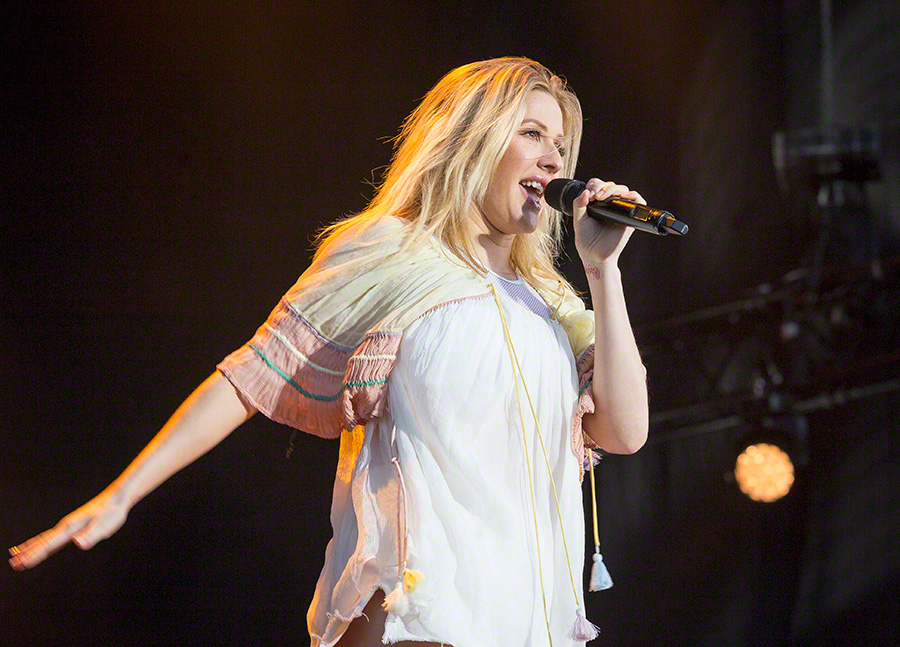 Ellie Goulding at the main stage during Stavernfestivalen in Stavern on 09. July 2016. Lineup:Ellie Goulding (vocal)